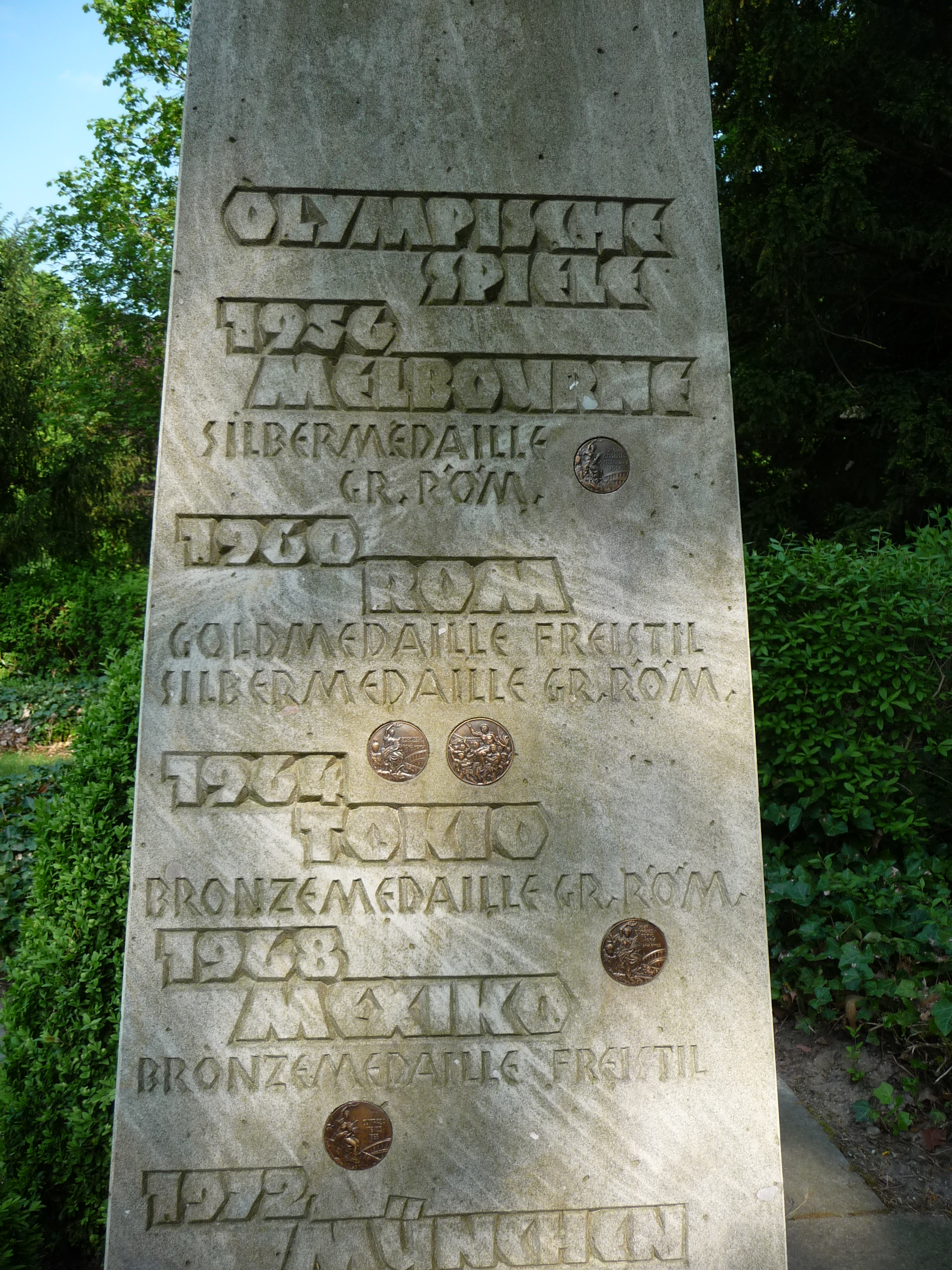 Wilfried Dietrich